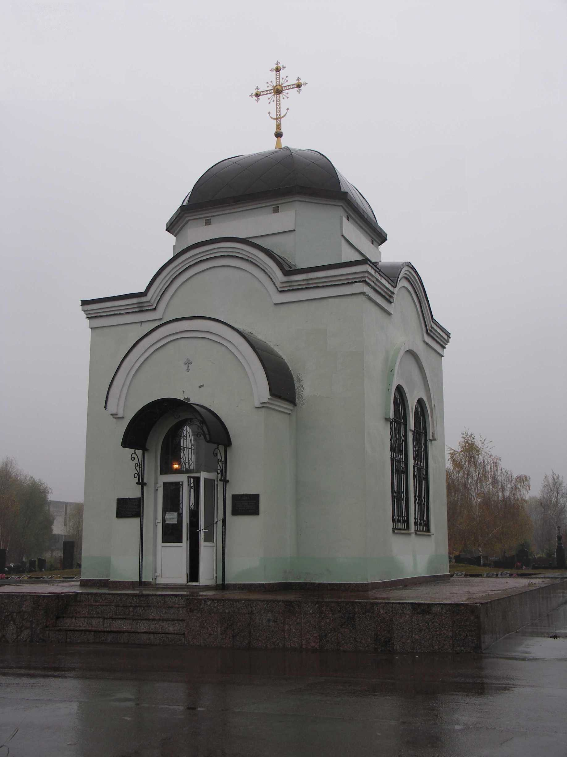 Chernobyl_Cathedral_in_memory_of_herois._On_Meeteeno_chemestry